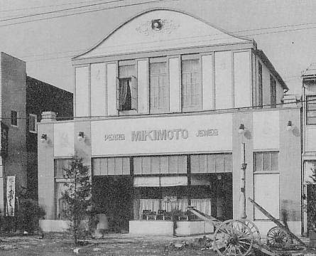 Mikimoto building in Taisho and Pre-war Showa eras